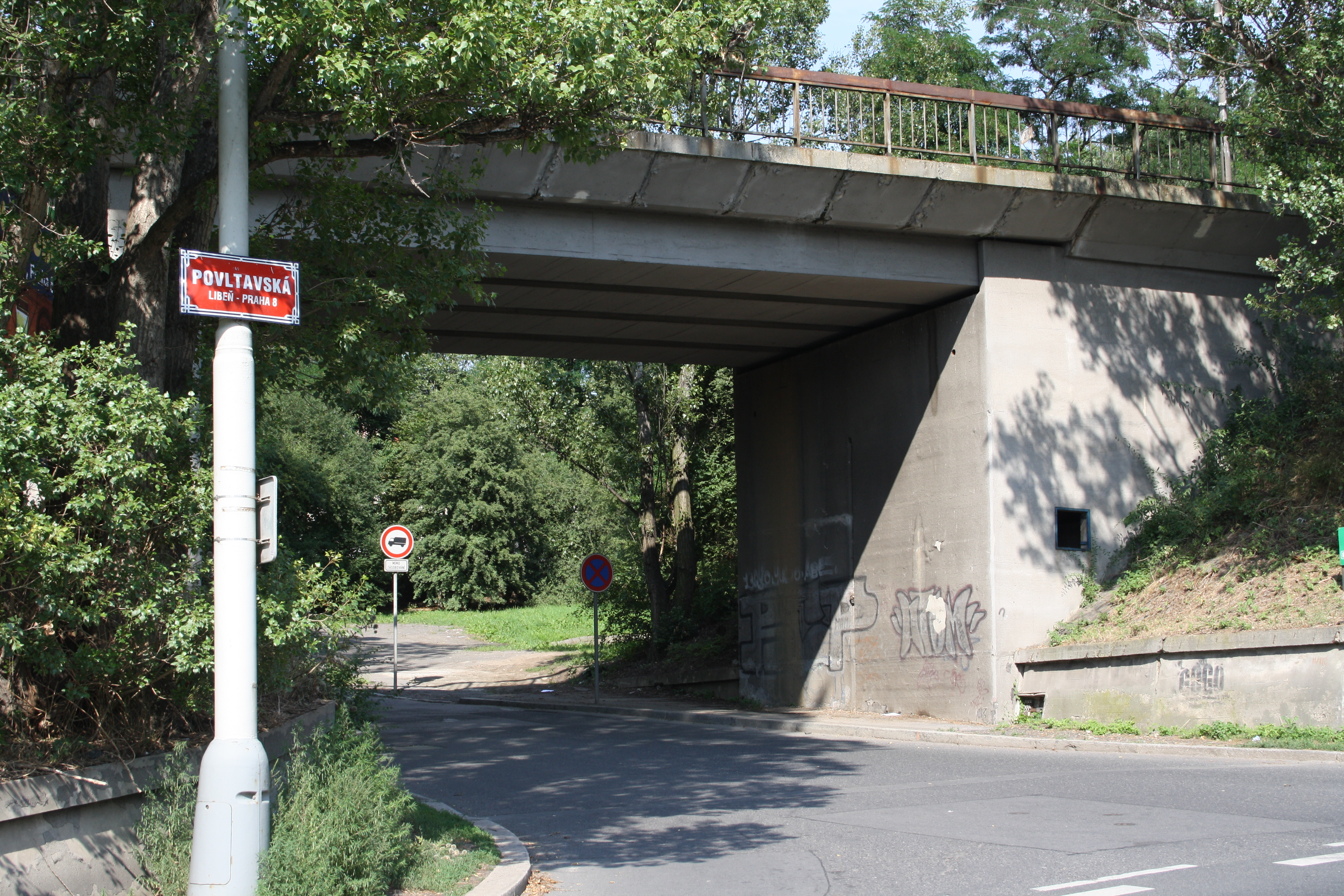 Prague Liben, Bulovka, crossing Bulovka x Povltavska